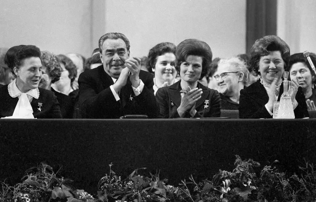 “Members of Moscow's Soviets, Communist and civic organisations attend International Women's Day meeting”. From left: Hero of Socialist Labor, dairy worker N.P. Rygaeva of the Konstantinovo collective farm, Domodedovo District outside Moscow, CPSU General Secretary Leonid Brezhnev, Soviet Women's Committee chairman, Hero of USSR V. V. Nikolayeva-Tereshkova and R. F. Dementieva, Secretary of Moscow City Committee of CPSU presiding a meeting at the Bolshoi Theater marking the International Women's Day attended by Representatives of Moscow's Soviets, civic and Communist organisations.